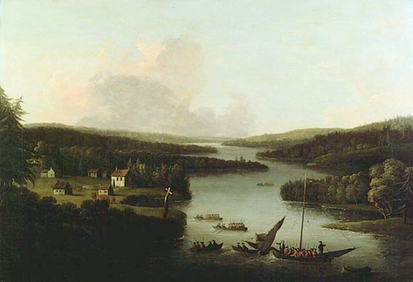 "A View of Miramichi", 1760, oil painting attributed to Francis Swaine after a view by Captain Hervey Smyth. W.F. Ganong identifies the scene as Burnt Church village in his article "The History of Neguac and Burnt Church" in ACADIENSIS, October 1908